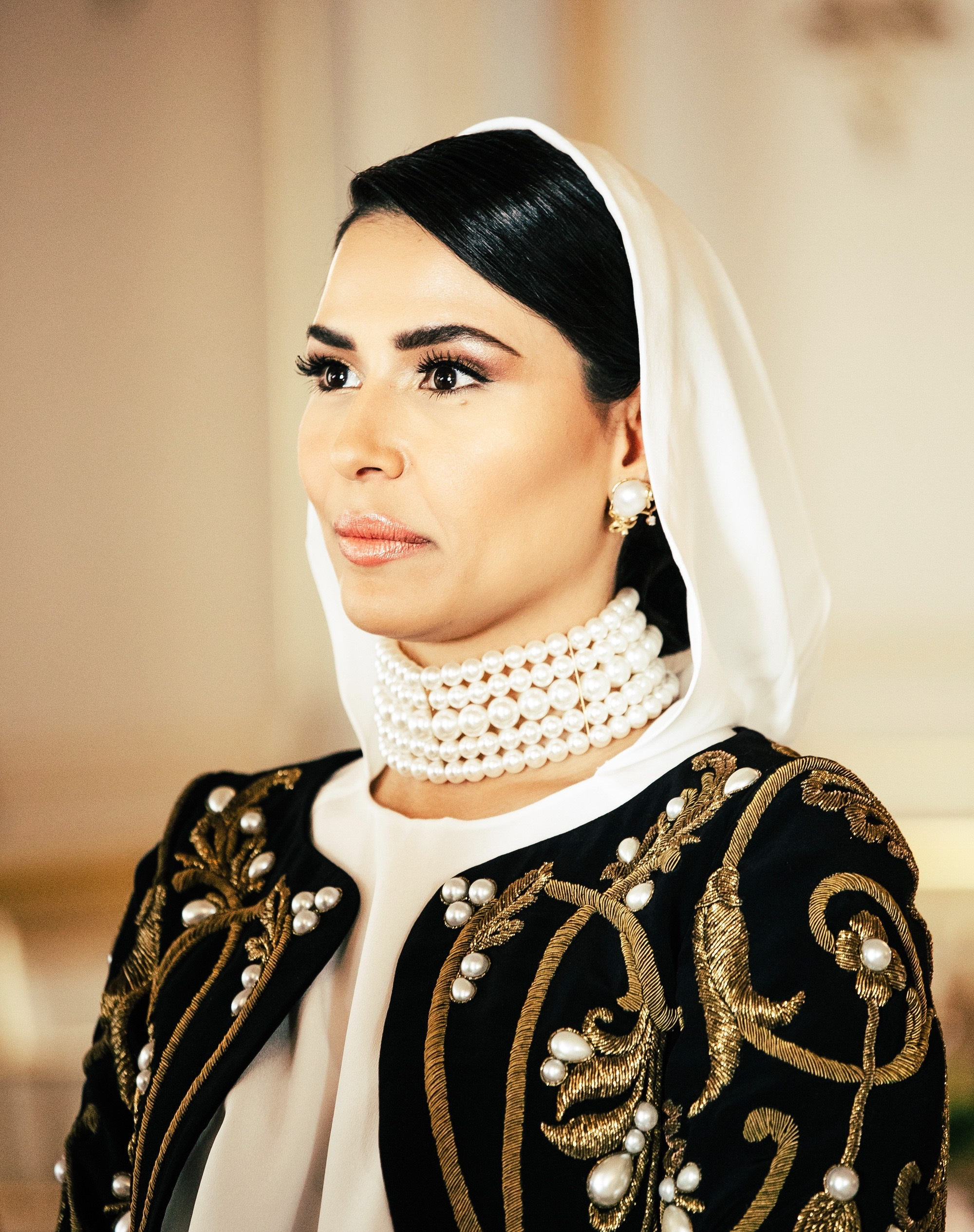 Princess Sora Saud: Hosts a High Tea Event benefiting Mentor Foundation USA at a prominent private club in Washington, D.C. November 27th, 2018. Photography by Kristy Yang Photography